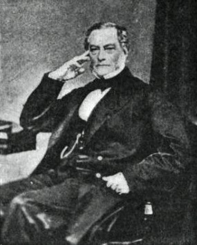 Photograph of Thomas Grubb, the famous Irish telescope builder